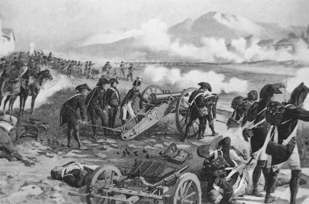 The Battle of Lodi, where after seizing the bridge over the Adda, the French defeated the Austrians and proceeded to occupy Milan.